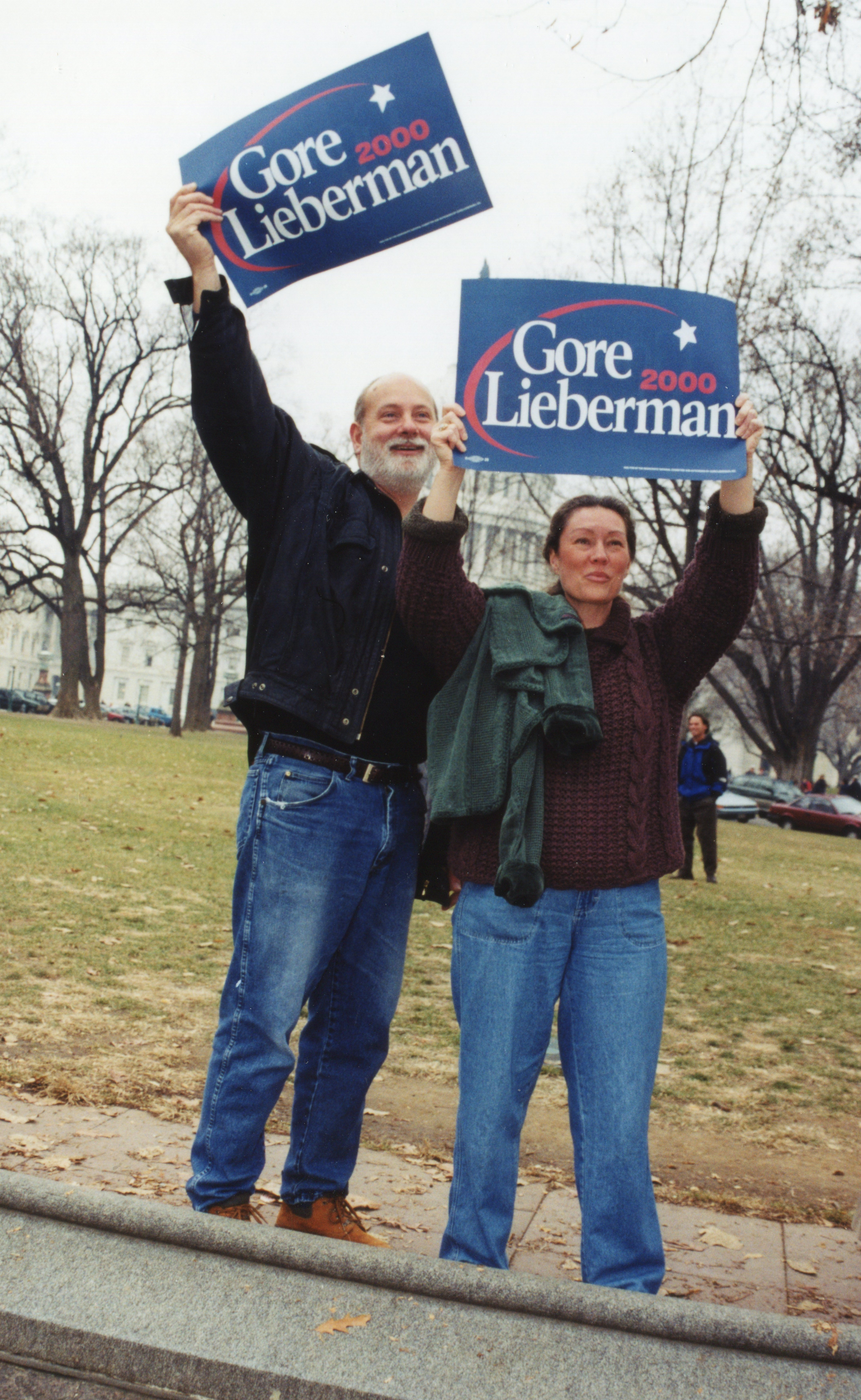 Presidential Election 2000 Disenfranchised Voters Protest at the US Supreme Court on Maryland Avenue between Maryland Avenue and East Capitol Street, NE, Washington DC on Monday, 11 December 2000 by Elvert Barnes Protest Photography ELECTION 2000 BUSH VS. GORE SUPREME COURT CASE at Elvert Barnes PROTEST PHOTOGRAPHY at